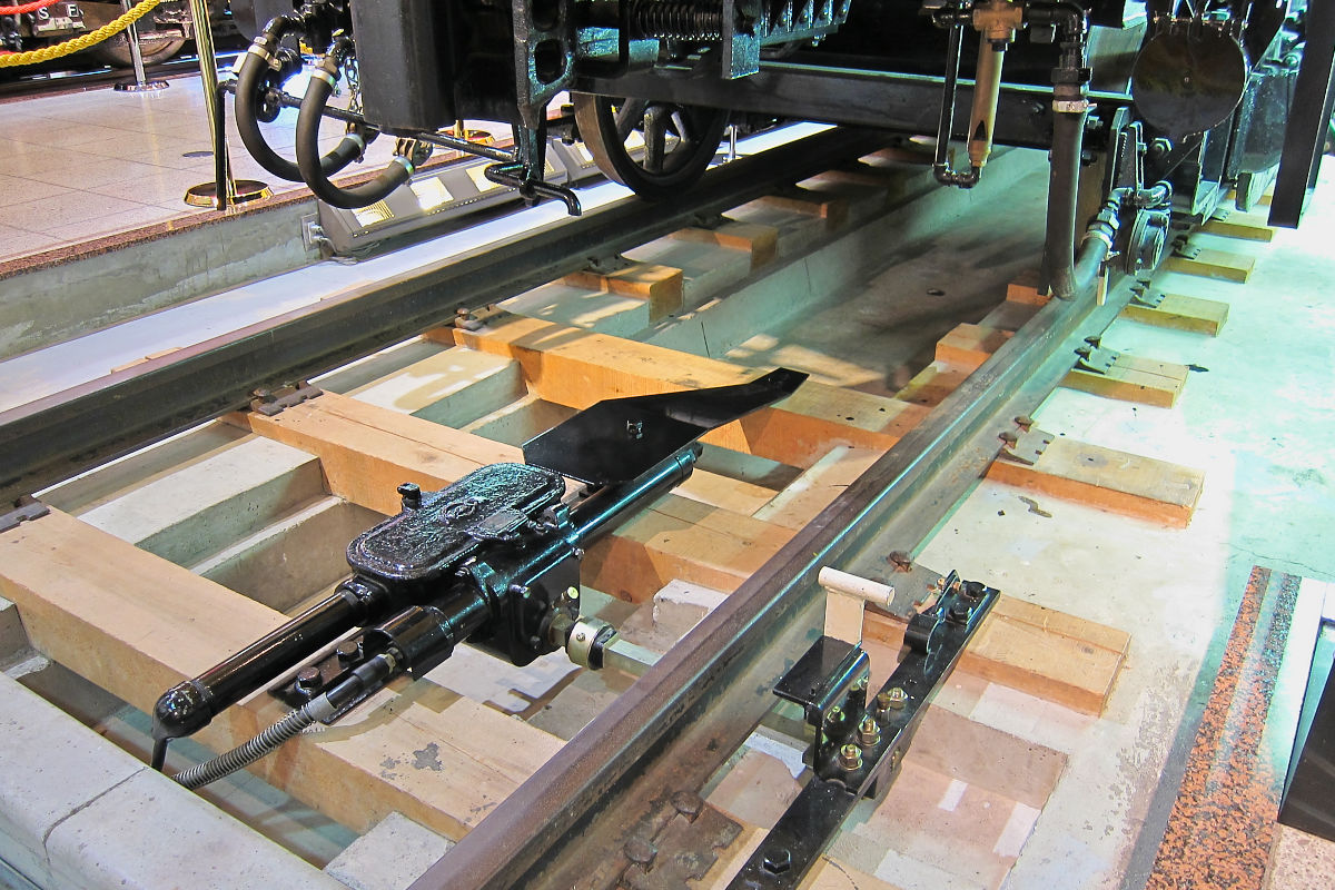 The automatic train stop for a subway at the Metro Museum, Tokyo, Japan.